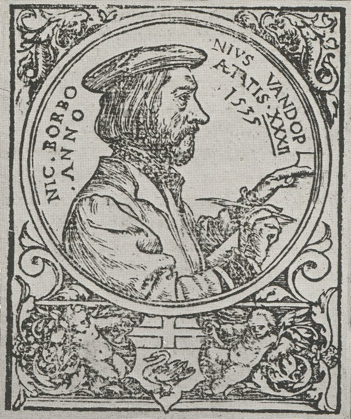 Nicolas Bourbon. Woodcut. The French poet Nicolas Bourbon (1503–after 1550) met Holbein when the former came to England in 1535 after being imprisoned in France for supporting religious reform. He was welcomed and helped in England by Anne Boleyn, a reformist and a patron of Holbein. This woodcut is based on a painting, now lost, or on the study Holbein made for it. The woodcut places the figure in the reverse direction, but still using the right hand to write. Of the painting, Bourbon wrote: "Hans in painting me was greater than Apelles", referring to the famous painter of Greek antiquity. References Susan Foister, Holbein in England, London: Tate, 2006, ISBN 1854376454. p. 53. K. T. Parker, The Drawings of Hans Holbein at Windsor Castle, Oxford: Phaidon, 1945, OCLC 822974, p. 46.